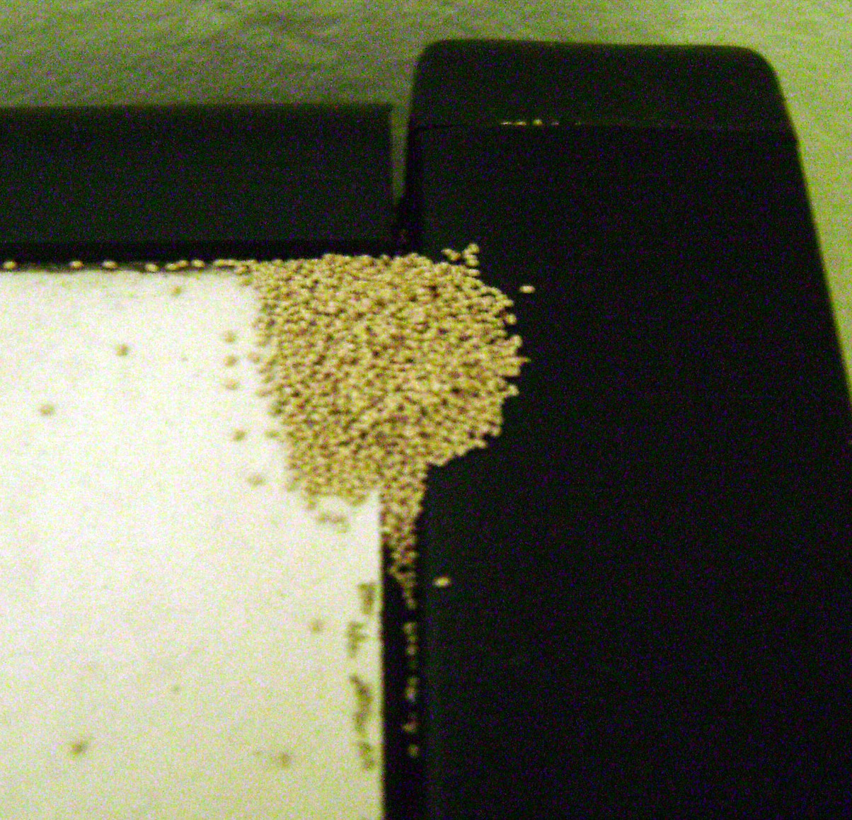 Dejeto de cupins, ao canto de uma escrivaninha de madeira.